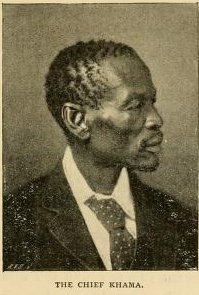 Photograph of Chief Khama III ("Khama the Good")